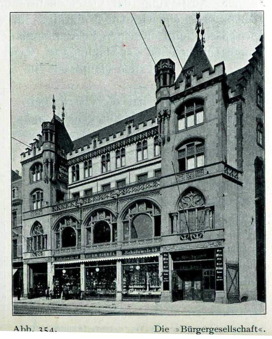 t